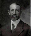 Photo of Jean d'Orléans (1874-1940), duke of Guise (Jean III for monarchist)